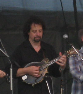 Mike Marshall at Del McCoury's DelFest in May 2011, playing in Psychograss.